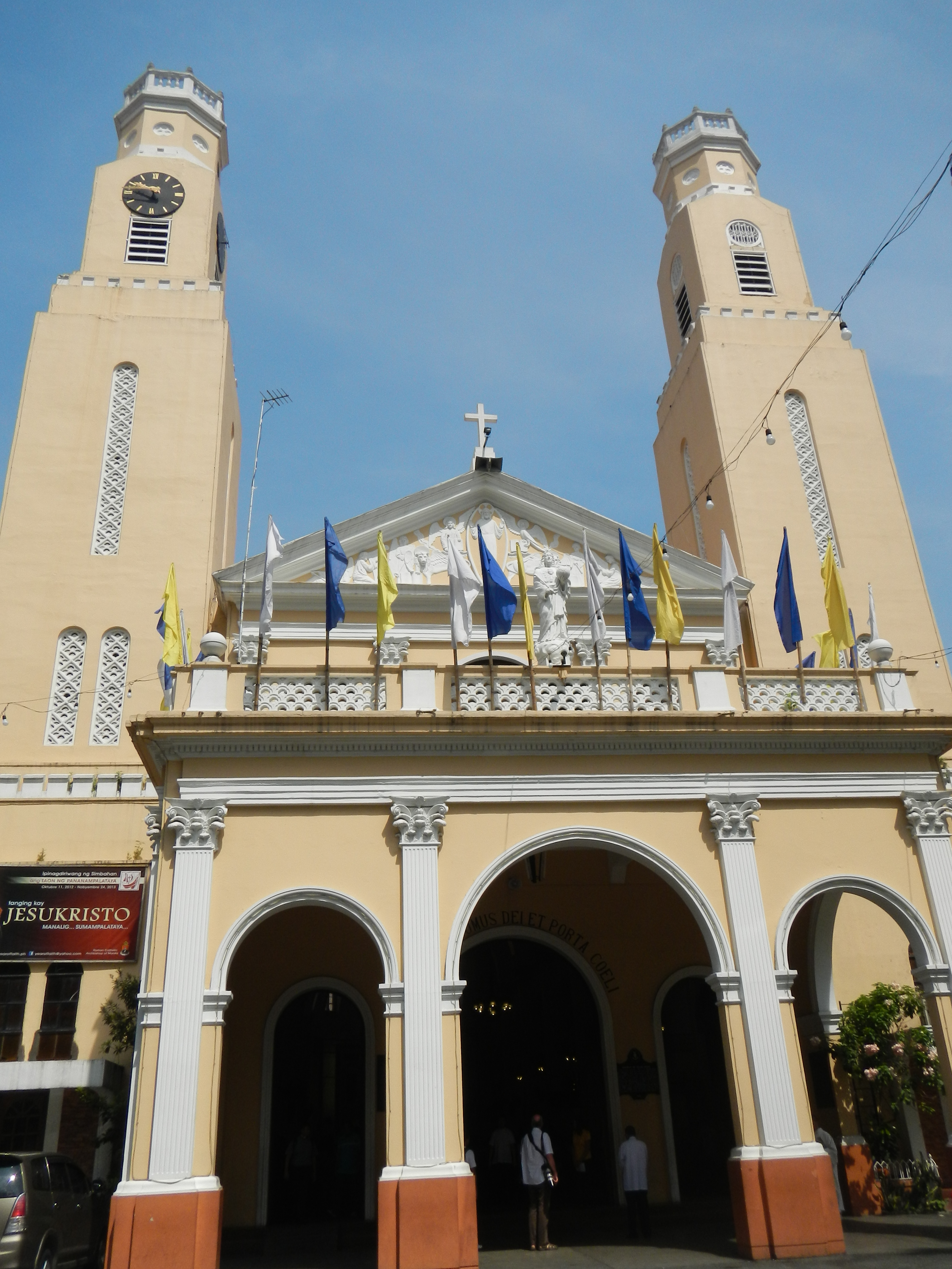 San Fernando de Dilao Church[1] (1521 Paz Street, Paco, Manila. The San Fernando de Dilao Church is a Roman Catholic parish located in Paco, Manila, Philippines, honoring Saint King Ferdinand III of Castile of Spain. Since February 2012, the parish has been used as current temporal church by the Archdiocese of Manila[2], until the structural renovations of Cathedral-Basilica of the Immaculate Conception are completed. The church inside is notable for its baroque interior, most notably the Latin inscriptions similar in style to Saint Peter's Basilica in Vatican City. The church is currently administered by its parochial priest, Monsignor Fray Rolando de la Cruz, the Vicar-general and Moderator Curiae of the Archdiocese of Manila. [3][4][5]Coordinates: 14°34'45"N 120°59'40"E [6]Paco, formerly known as Dilao, is a district of Manila, Philippines. [7]Pastor: Msgr. Rolando R. dela Cruz)